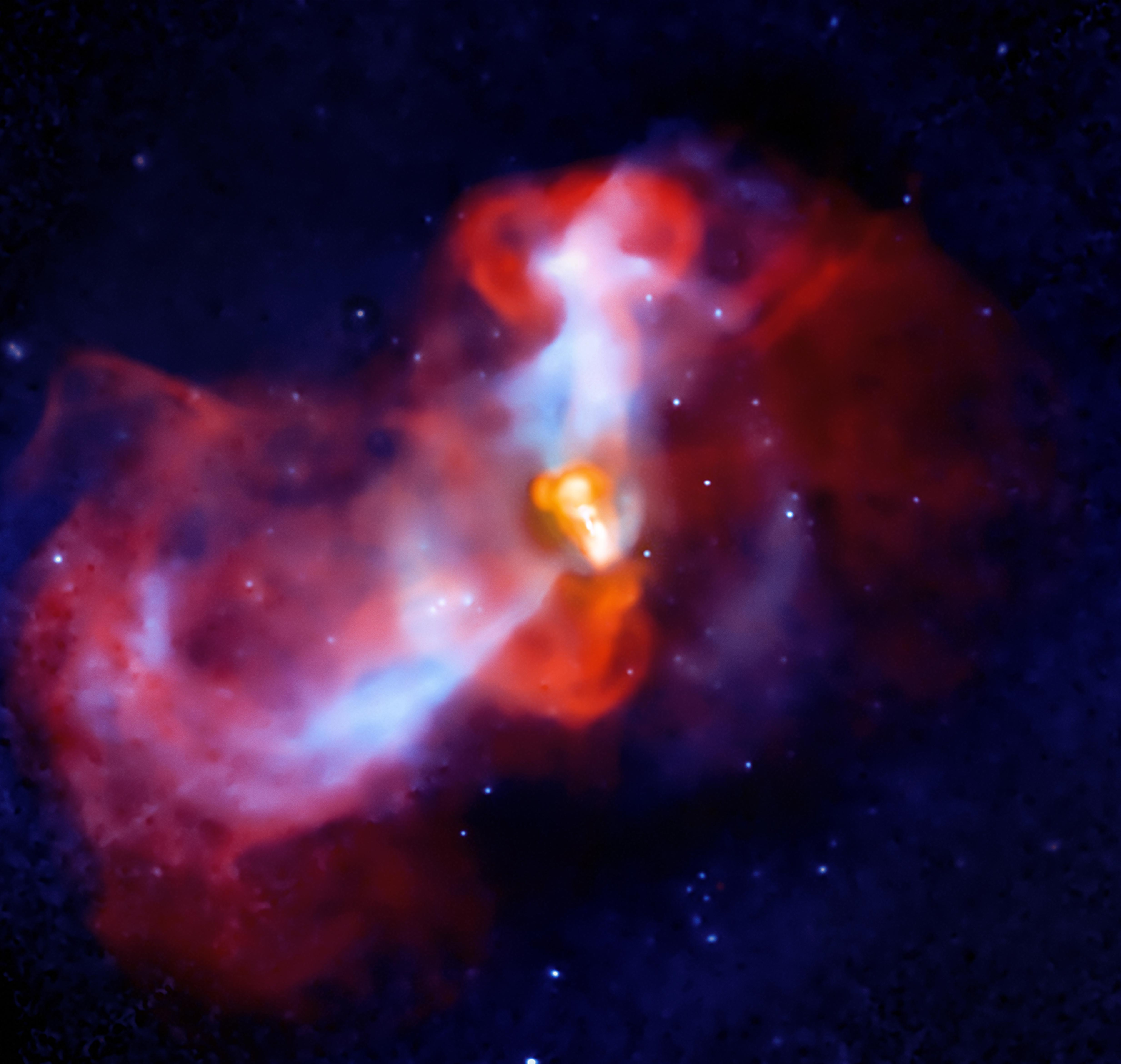 This image shows the eruption of a galactic “super-volcano” in the massive galaxy M87, as witnessed by NASA's Chandra X-ray Observatory and NSF's Very Large Array (VLA). The cluster surrounding M87 is filled with hot gas glowing in X-ray light (and shown in blue) that is detected by Chandra. As this gas cools, it can fall toward the galaxy's centre where it should continue to cool even faster and form new stars. However, radio observations with the VLA (red) suggest that in M87 jets of very energetic particles produced by the black hole interrupt this process. These jets lift up the relatively cool gas near the centre of the galaxy and produce shock waves in the galaxy's atmosphere because of their supersonic speed.